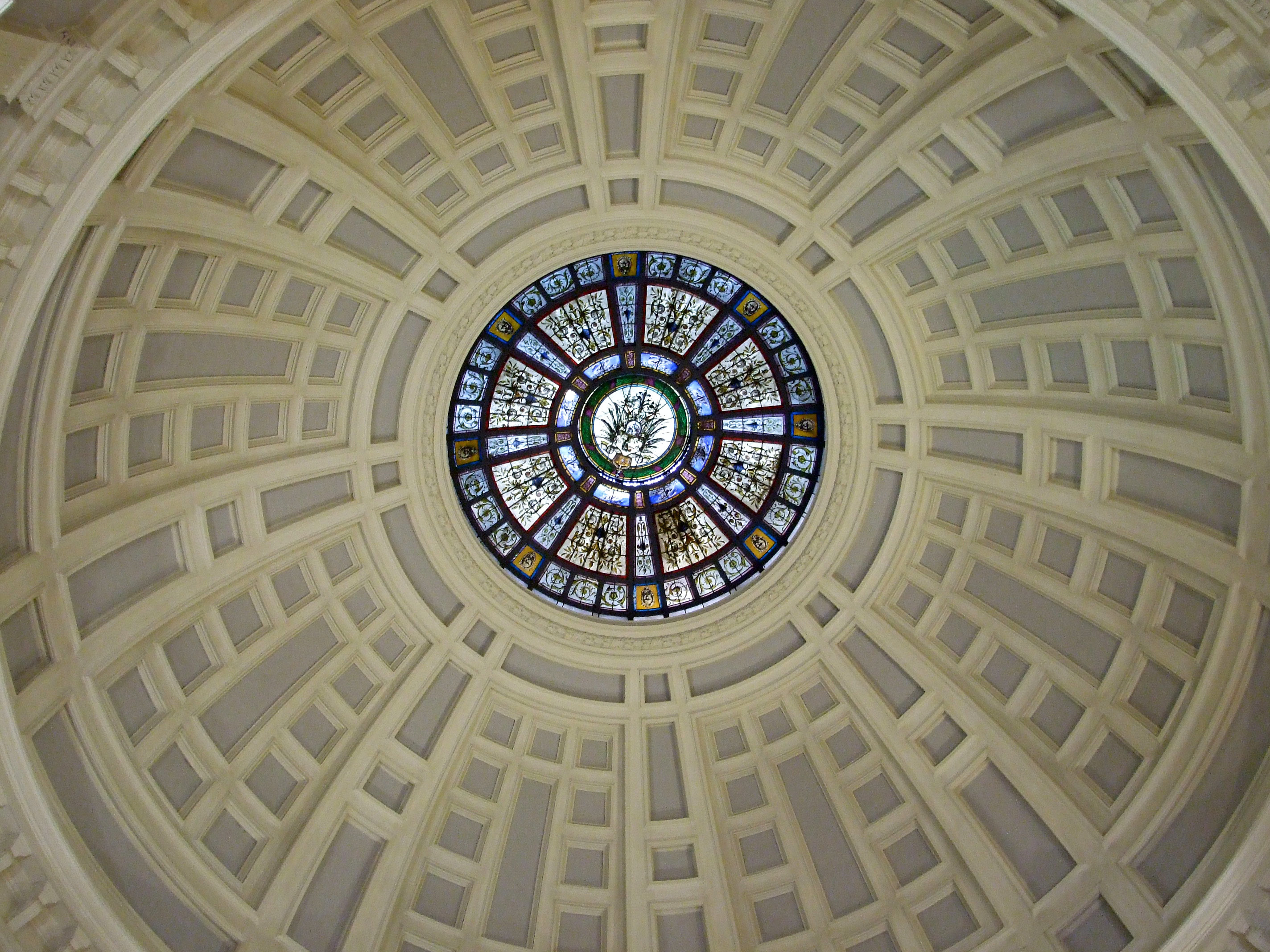 Dome of the "Kaiser Wilhelms Bad" at the "Kurpark" of Bad Homburg, Hesse, Germany